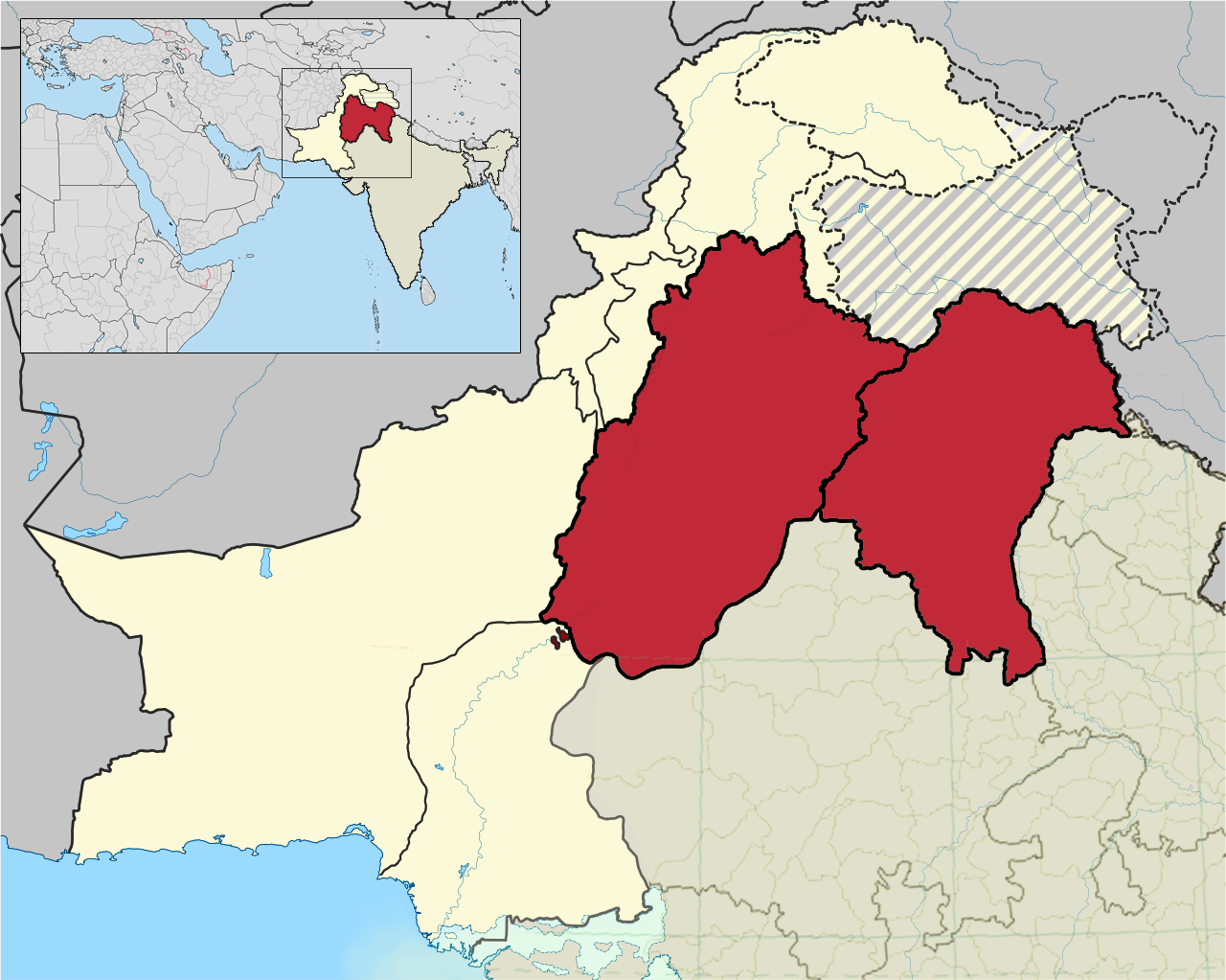 Overlay of historical Punjab region on modern east and west punjab and inset of its location in international neighbourhood.